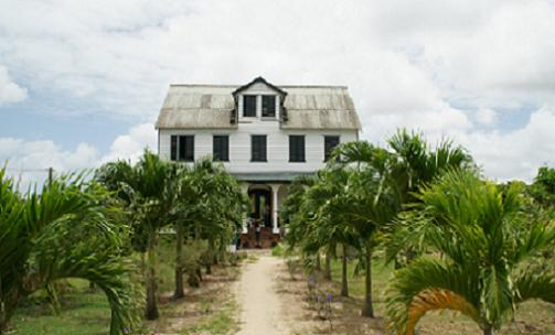 Landgoed Groot Marienbosch